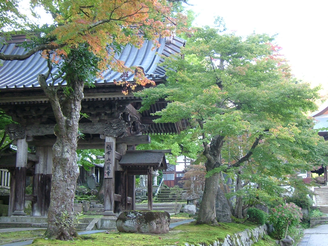 This is a photo of the Chinzo Temple in Urushiyama, Nanyo City, Yamagata Prefecture, Japan. I took it on 30 October 2005.